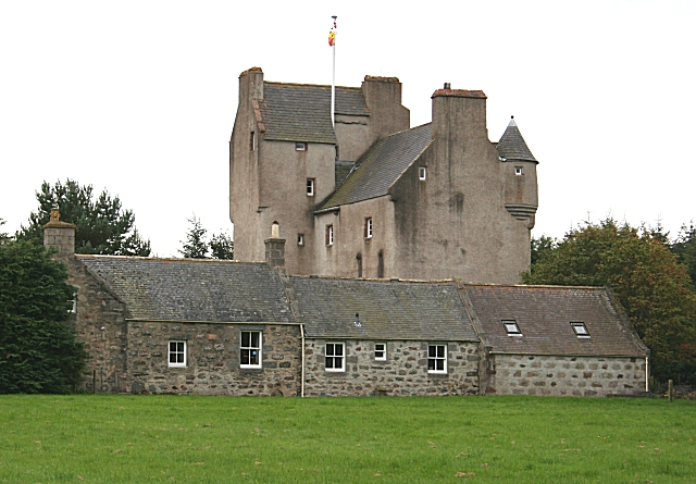 Balfluig Castle Built in the late 16th century, this was the seat of a branch of the Forbes clan which was the pricipal clan in the Howe of Alford, but was sold to a Farquharson in 1753. Local tradition apparently relates that at one time there was another castle near enough for the respective lairds to shoot at one another from their windows, until one laird killed the other, regretting the deed for the rest of his life.